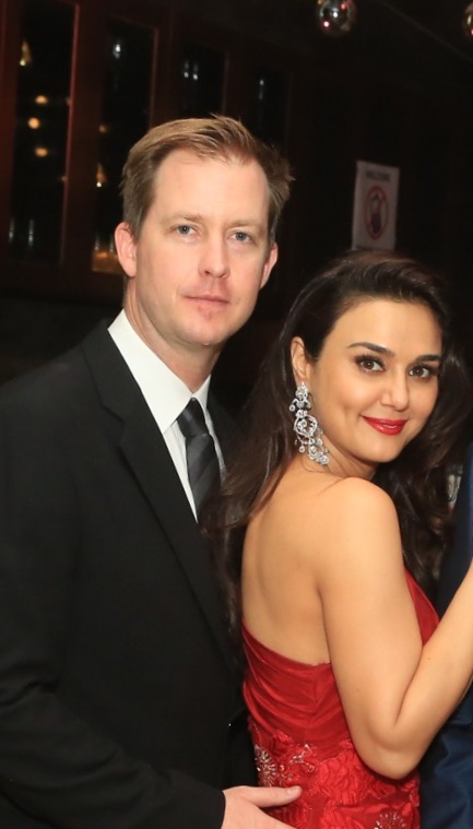 Priety Zinta with Gene Goodenough at reception